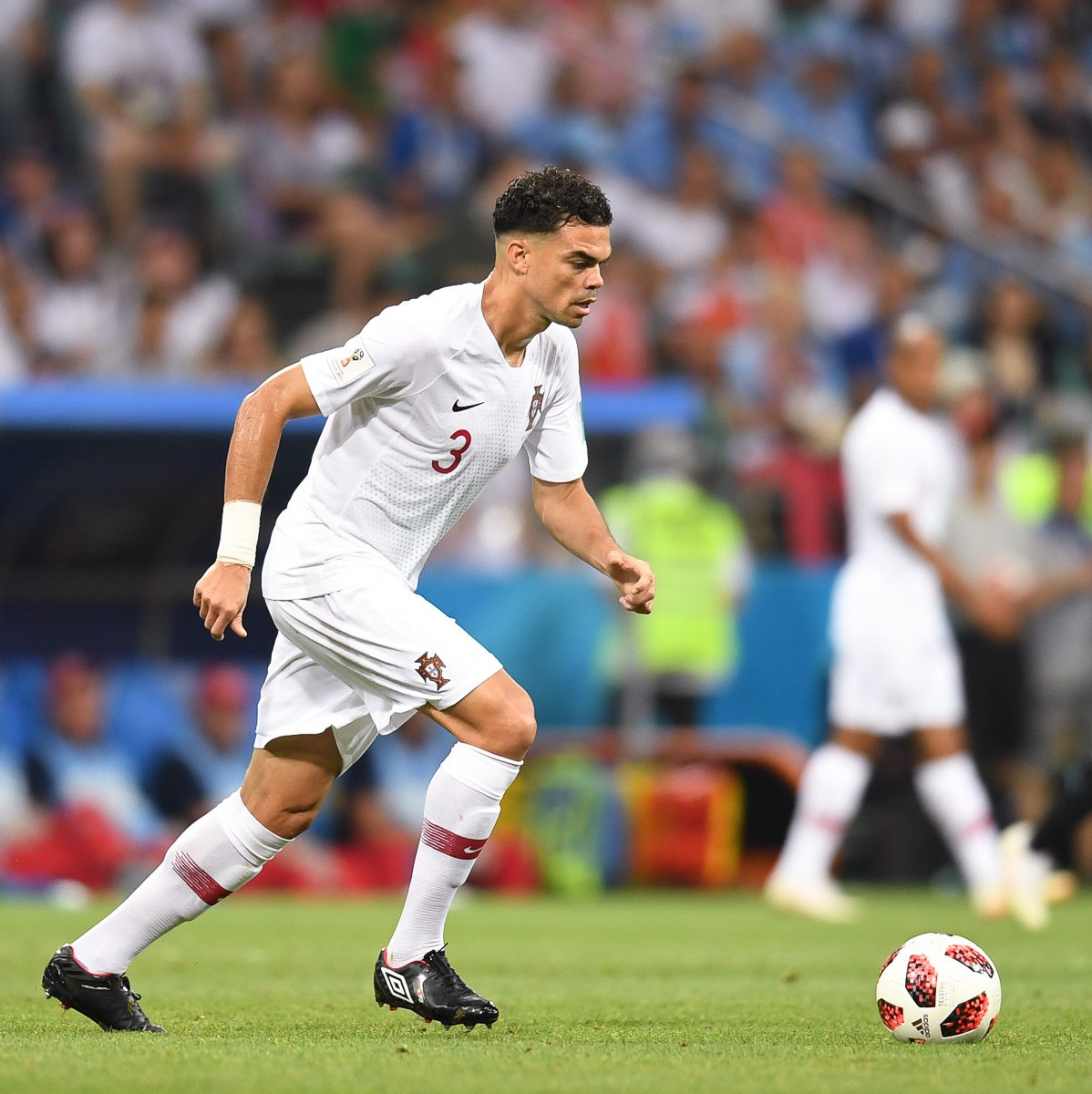 Pepe in match